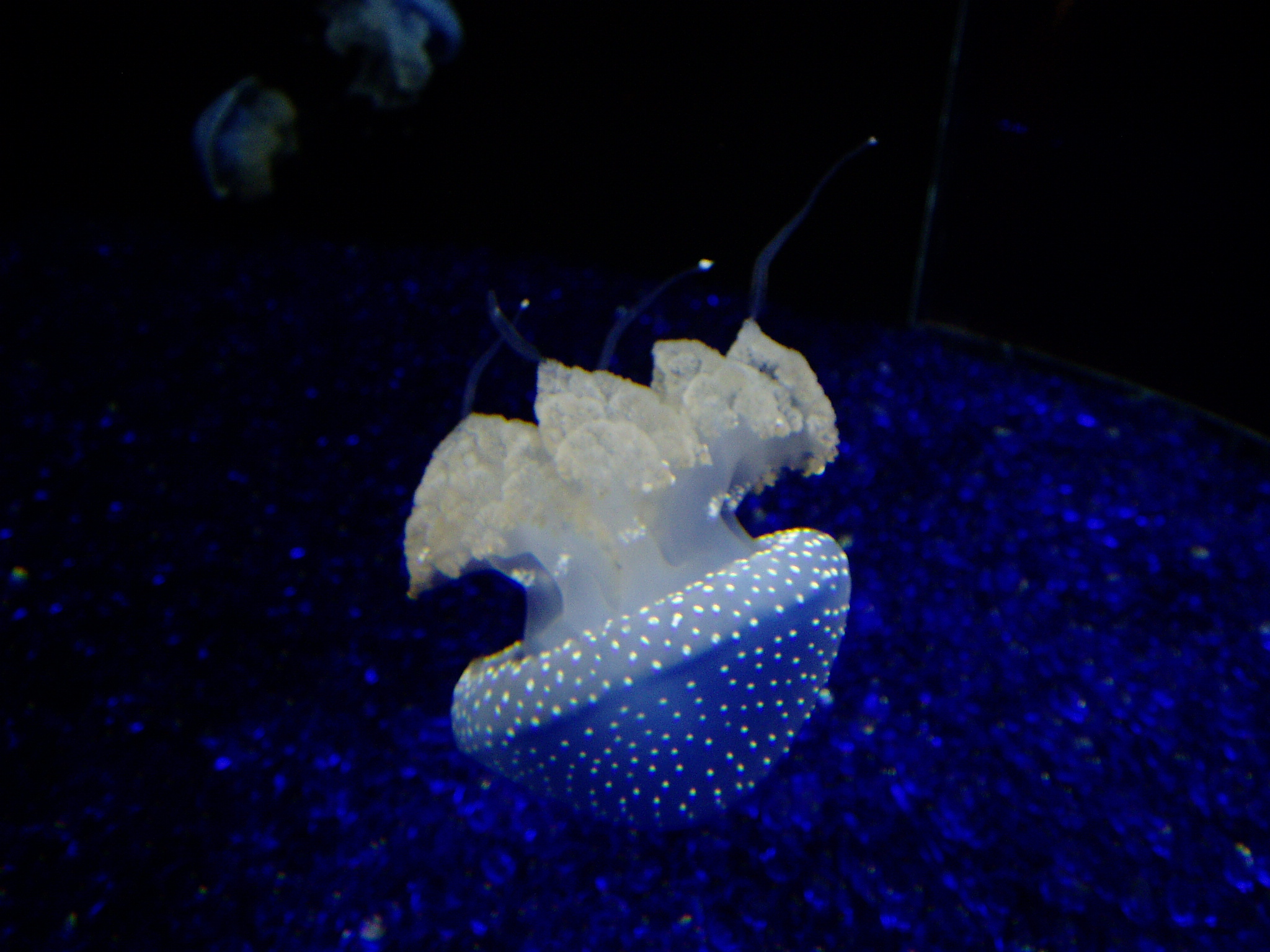 Australian spotted jellyfish, Phyllorhiza punctata, Monterey Aquarium, 2006-06-01